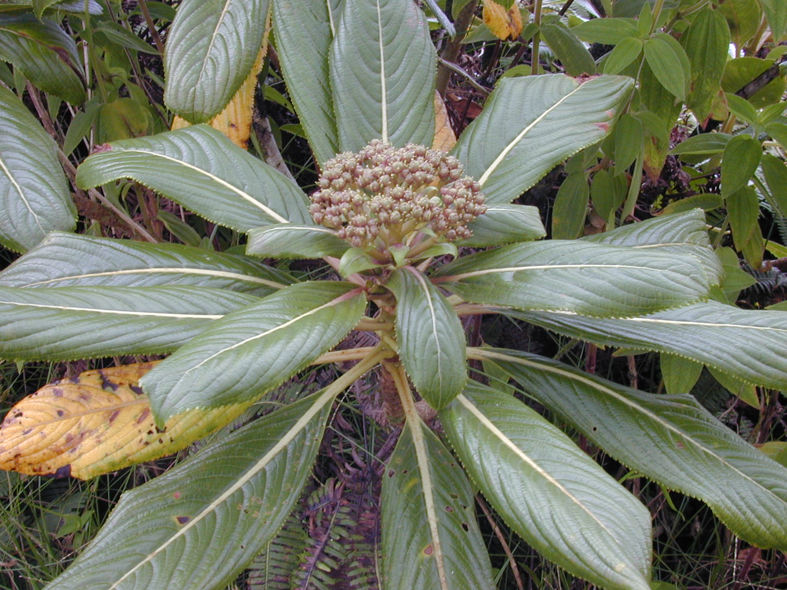 Broussaisia arguta (flowers and leaves). Location: Maui, Waihee Ridge Trail